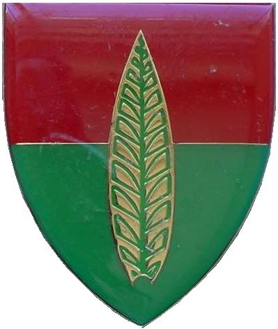 SADF 10 Anti Aircraft Artillery Regiment emblem